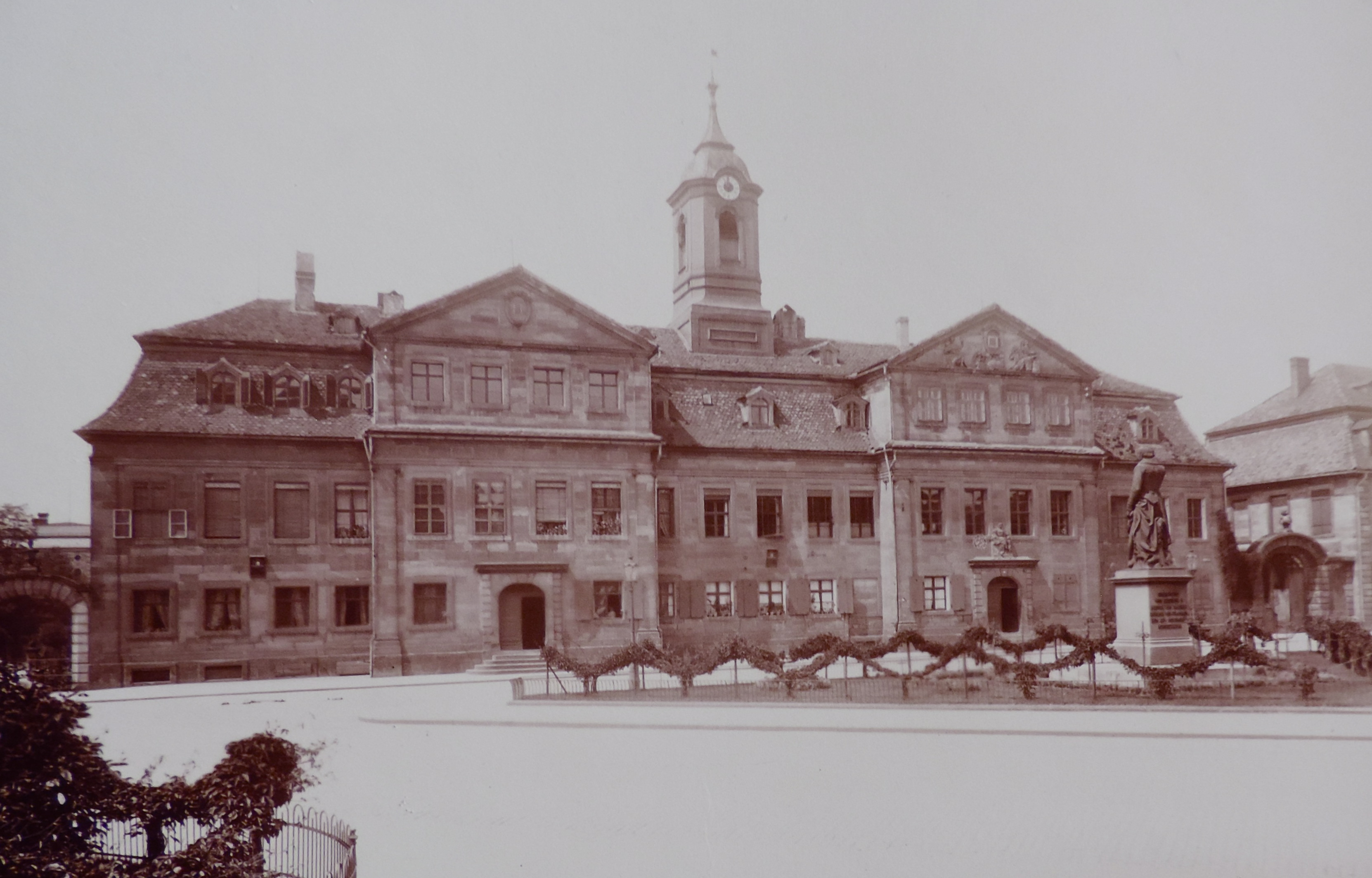 Views and photos of Bayreuth, Germany, gifted to Ferdinand I of Bulgaria to commemorate his 25-year rule. Gymnasium from 1732.